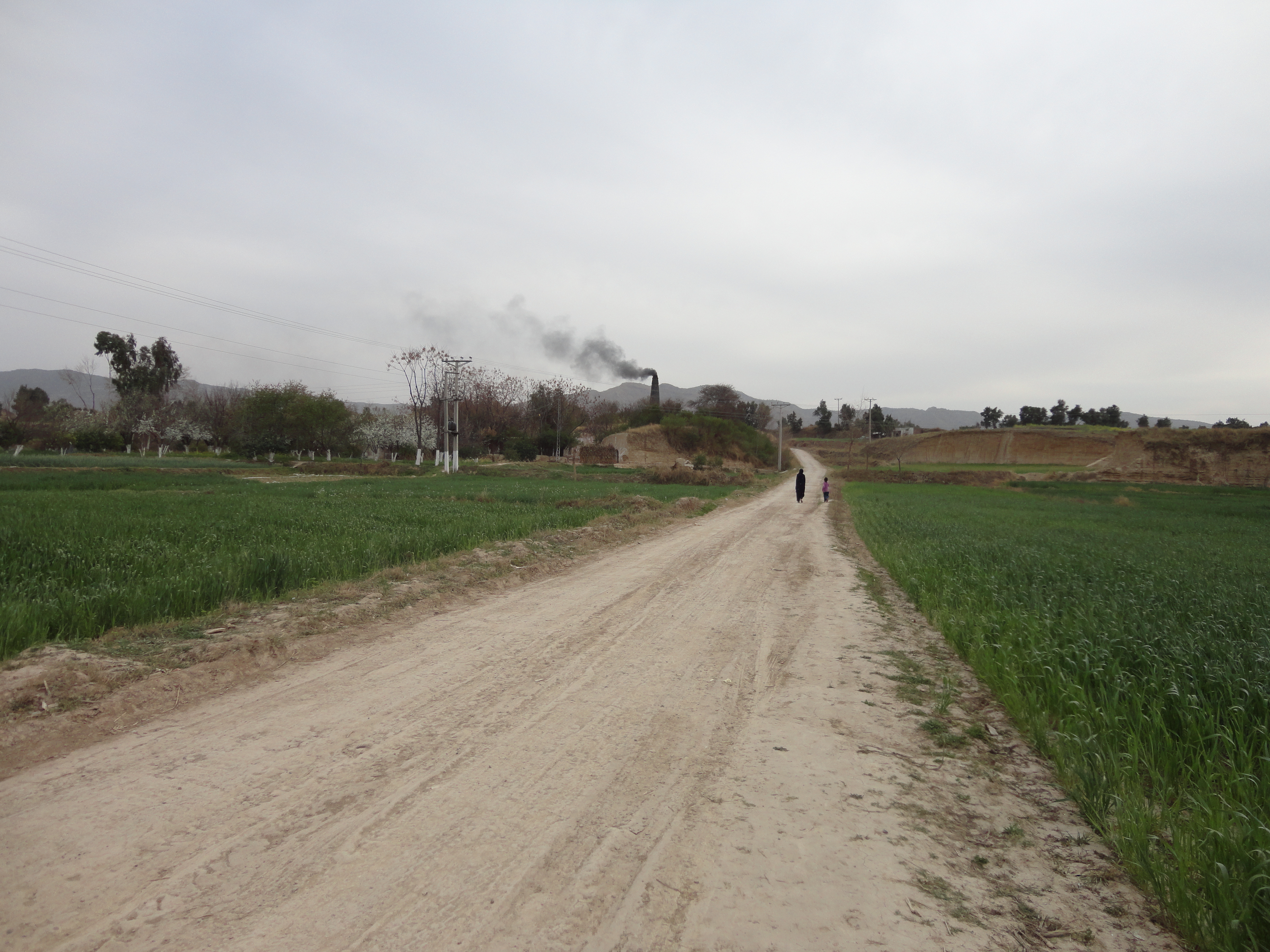 a village near Attock